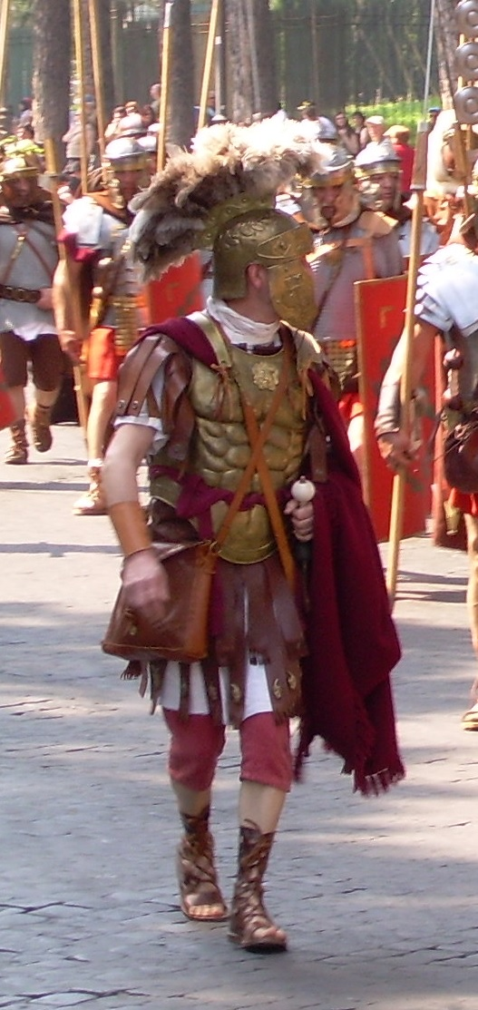 Tribunus legionis.